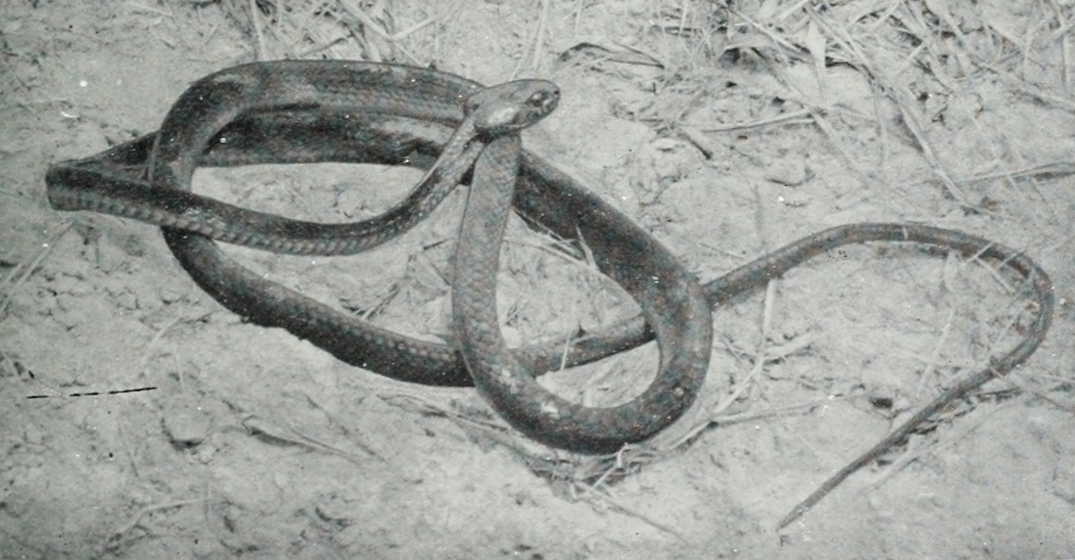 Title: Bulletin of the American Museum of Natural History Year: 1881 (1880s) Authors: Allen, J. A. (Joel Asaph), 1838-1921; American Museum of Natural History Subjects: Natural history; Science Publisher: New York : (American Museum of Natural History) Text Appearing Before Image: Bulletin A. M. N . H. Vol. XLIX, Plate X Text Appearing After Image: '